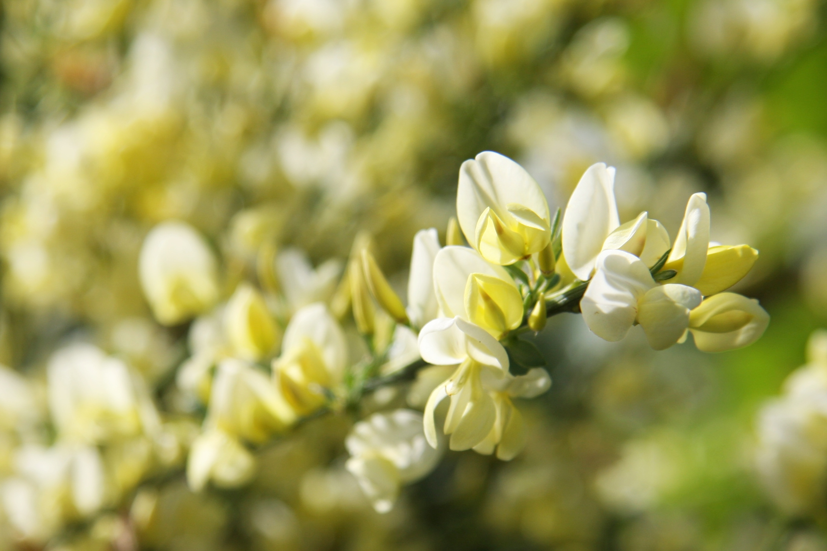 Elfenbein-Ginster (Cytisus praecox), Mai 2010 Creative Commons Licence BY 2.0 Quellenangabe / Credit: Photo by Maja Dumat